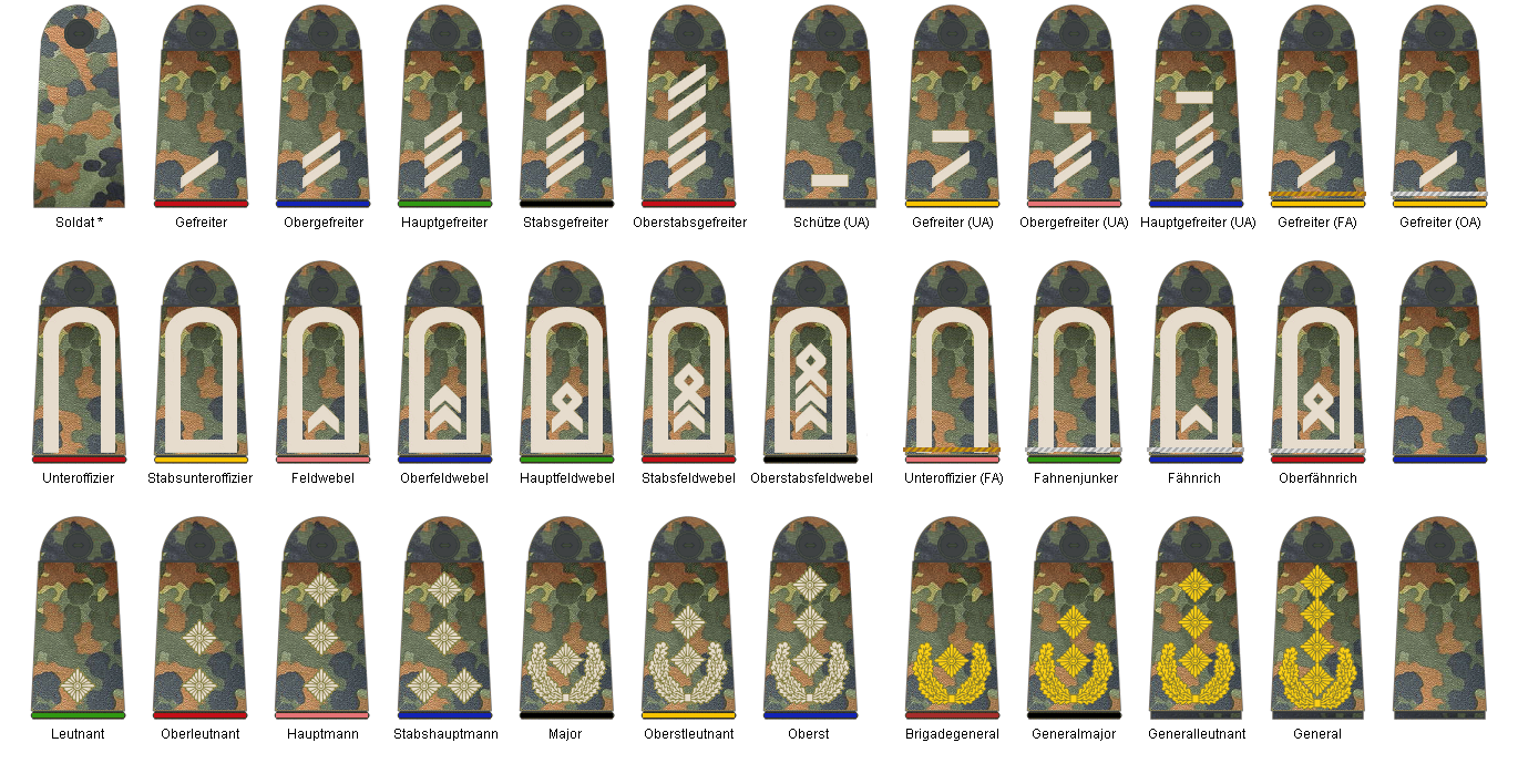 German Army rank insignia complete collection / Überblick